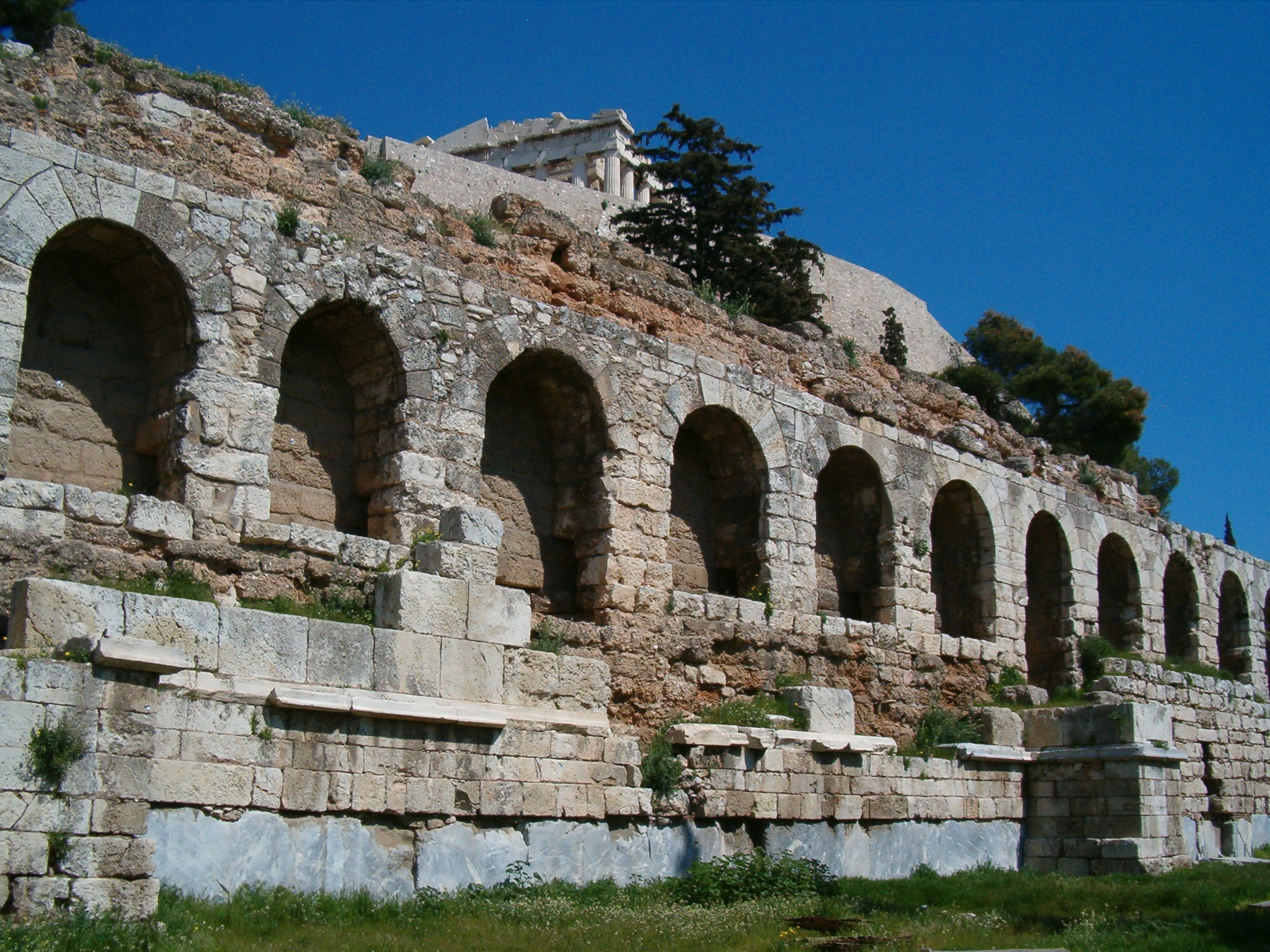 Theatre of Herodes Atticus, south of the Acropolis, Athens. Exterior.